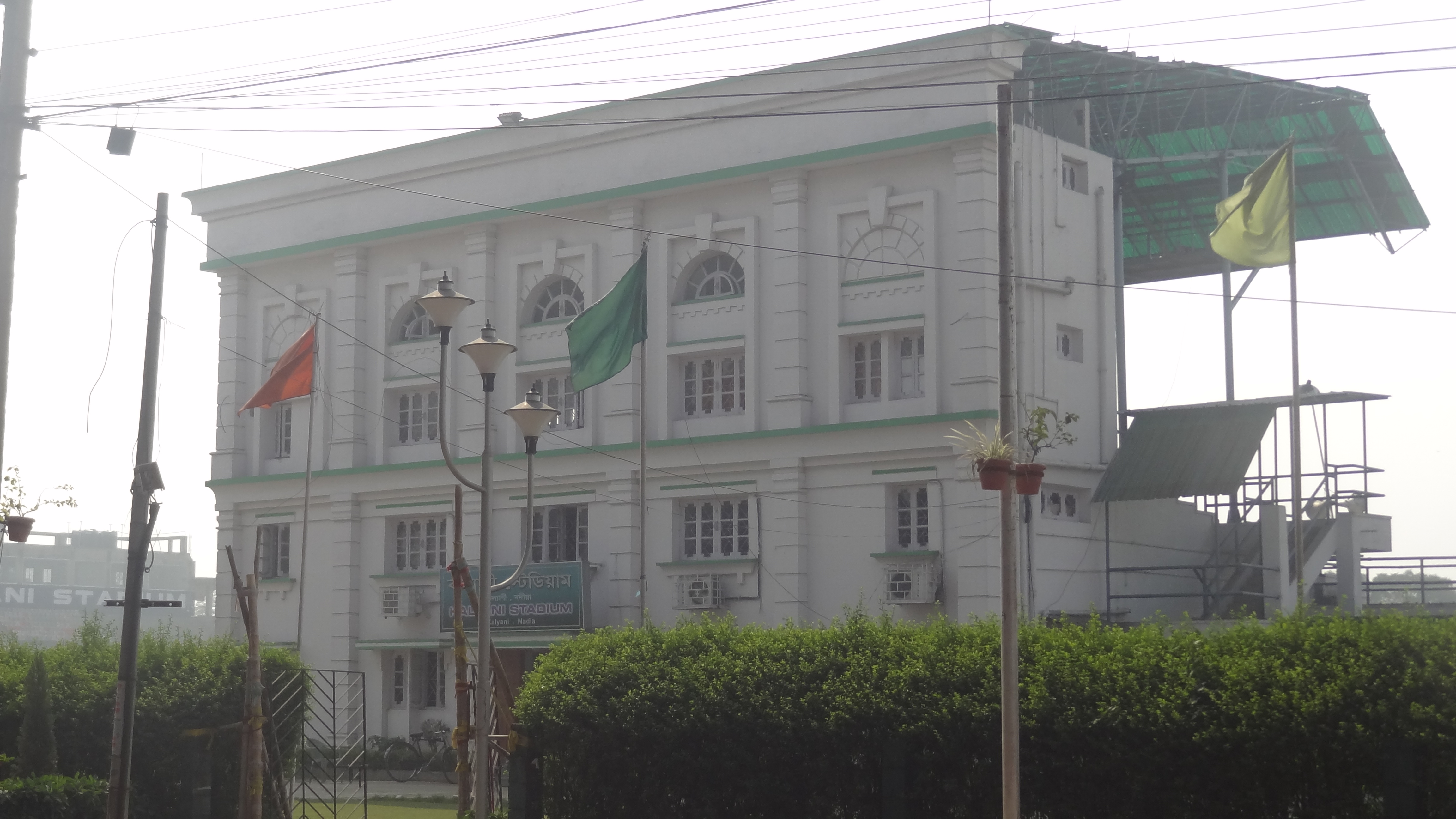 Kalyani Stadium has emerged as an alternative venue for I-League football matches in Kolkata